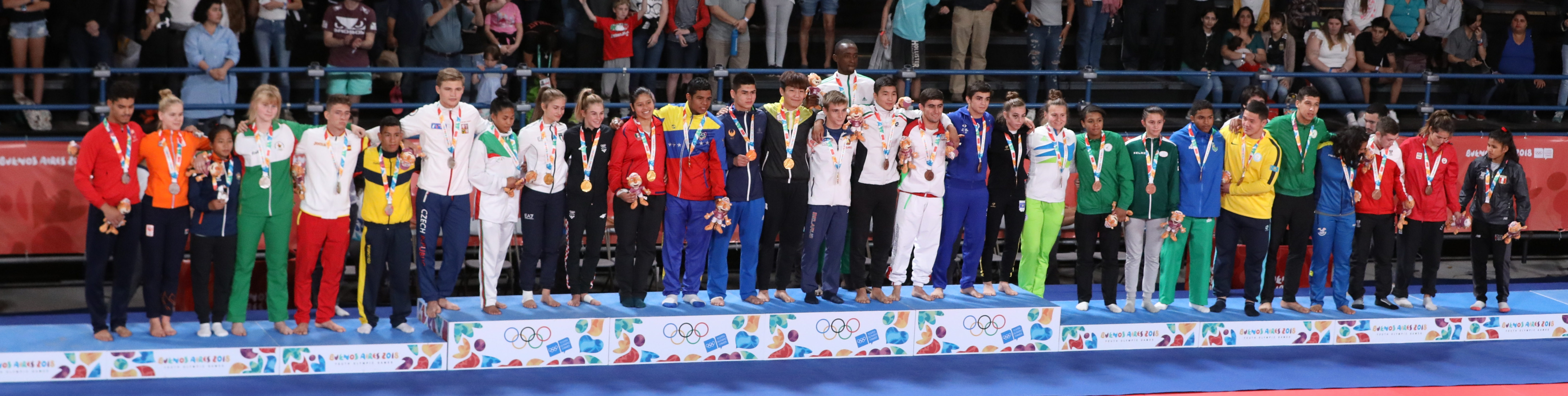 Victory ceremony at the Judo Mixed International Team competition